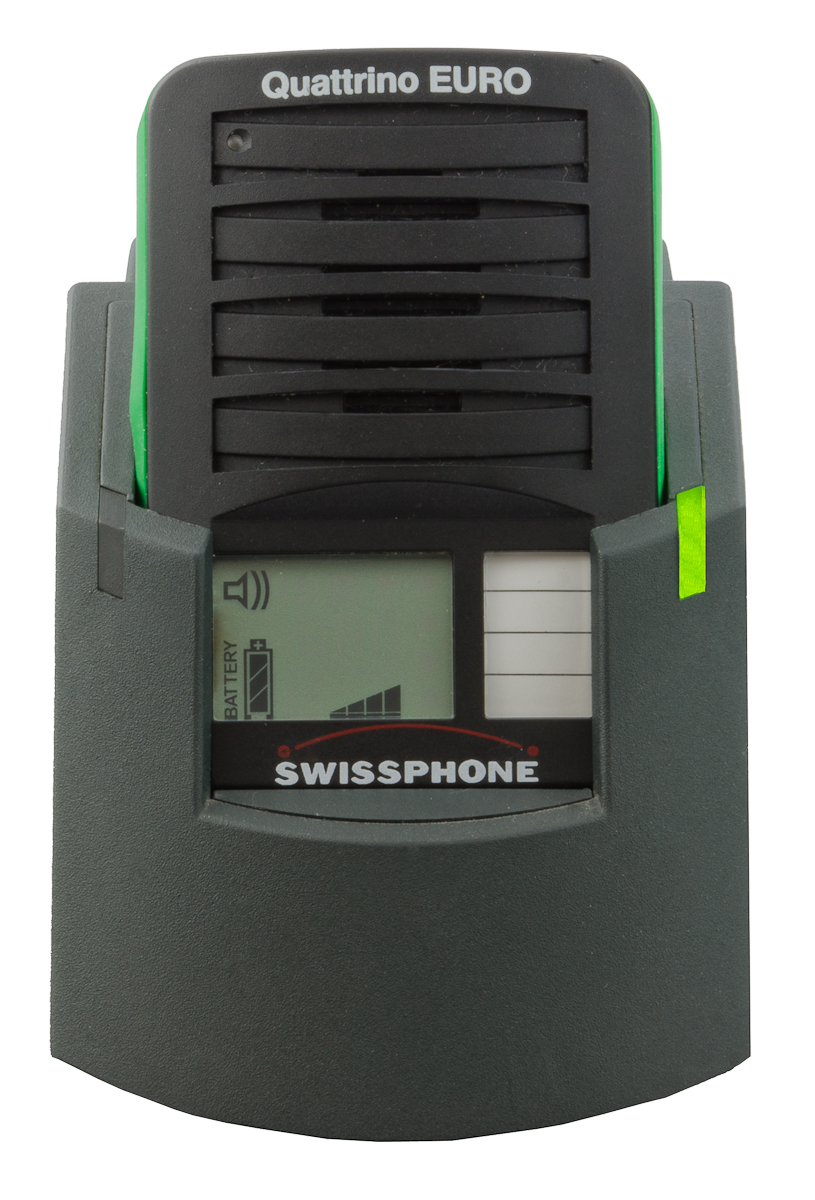 Swissphone Quattrino EURO RE428NT-16V with charger